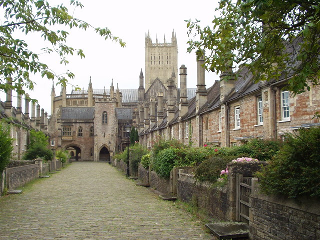 Looking south, the tower of Wells Cathedral clearly seen beyond the Close.